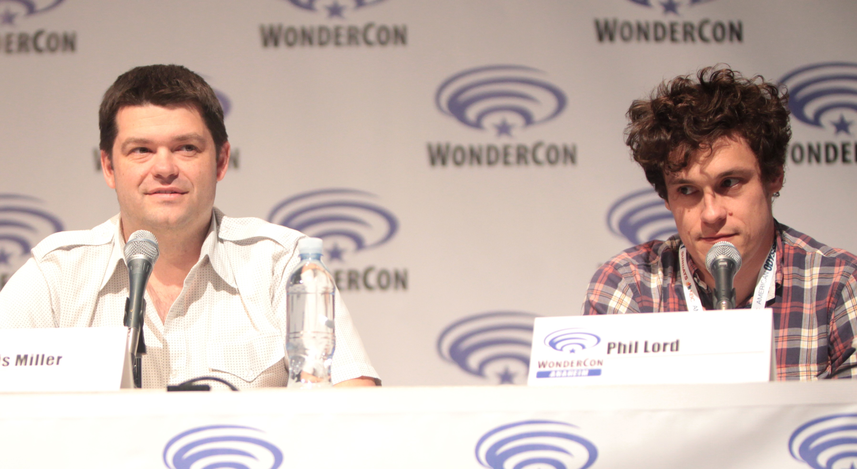 Chris Miller and Phil Lord speaking at the 2015 Wondercon, for "The Last Man on Earth", at the Anaheim Convention Center in Anaheim, California.